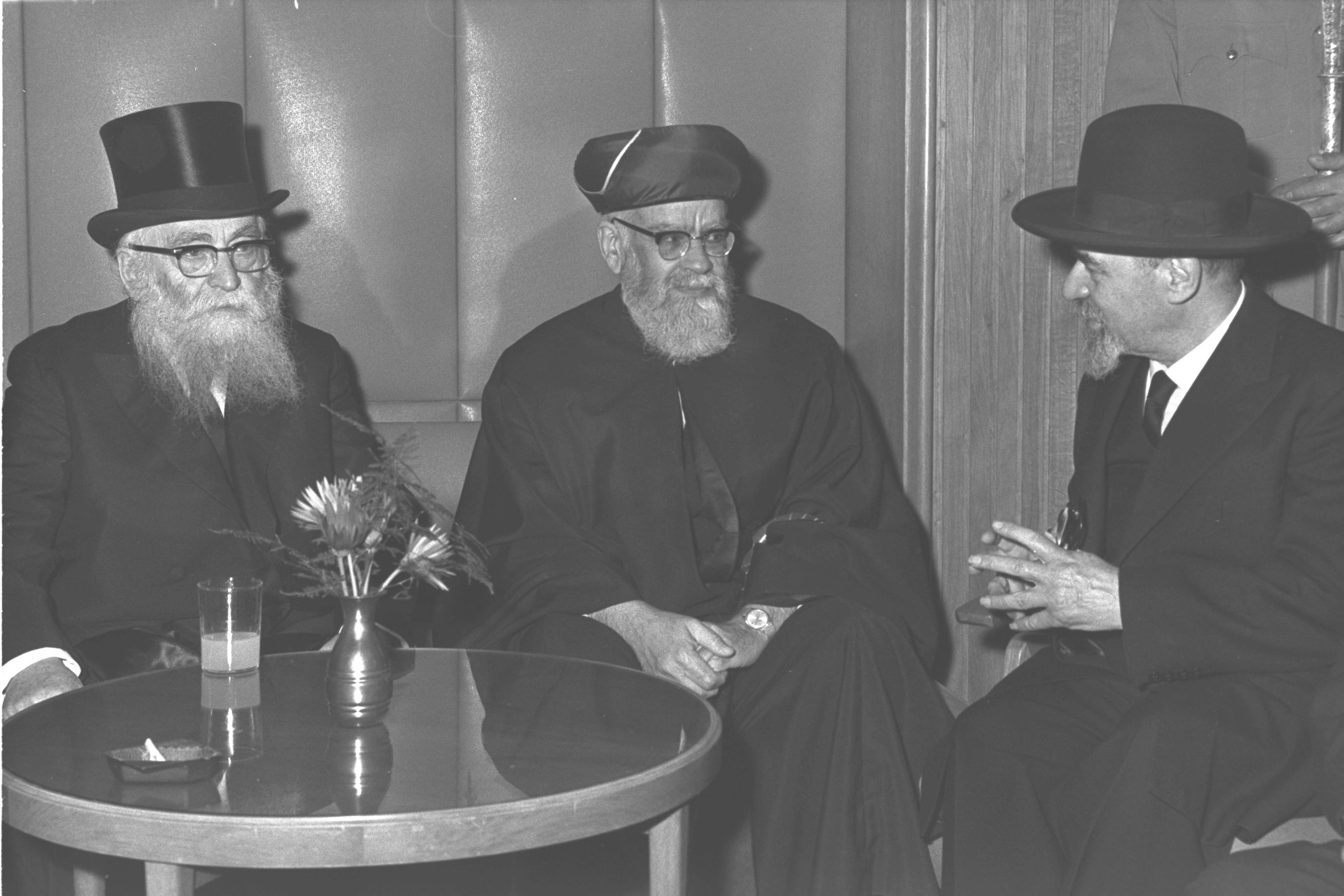 FROM L TO R: NEW ASHKENAZI CHIEF RABBI YEHUDA UNTERMAN, SEPHARDI CHIEF RABBI YITZHAK NISSIM & BRITISH CHIEF RABBI ISRAEL BRODIE AT HEICHAL SHLOMO IN JERUSALEM.